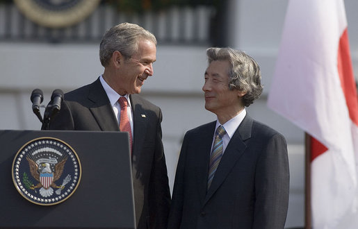 Official arrival ceremony for Prime Minister Junichiro Koizumi of Japan Thursday, June 29, 2006. White House photo by Paul Morse Confirmed as work of government photographer. --RobthTalk 07:06, 13 December 2006 (UTC)